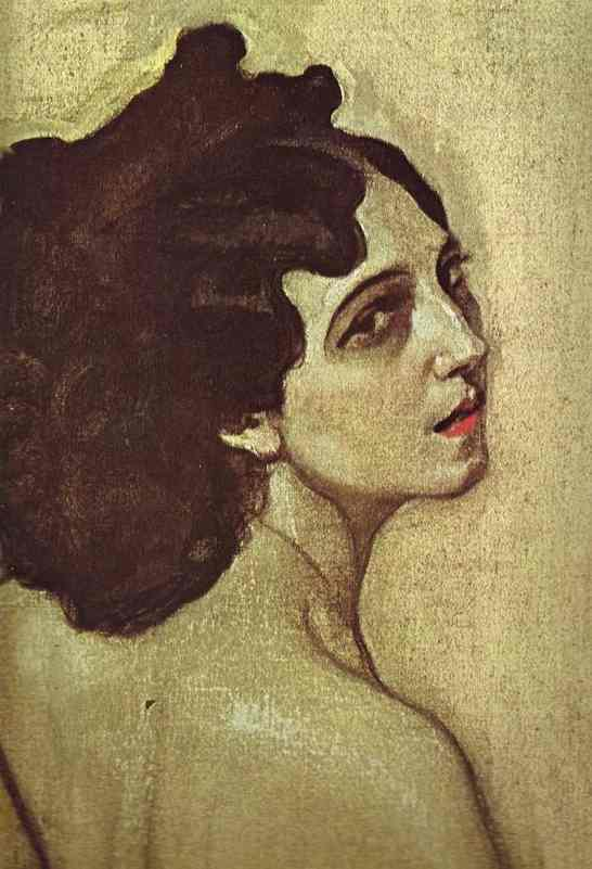 Portrait of Ida Rubenstein. Detail. 1910. Tempera and charcoal on canvas. The Russian Museum, St. Petersburg, Russia.